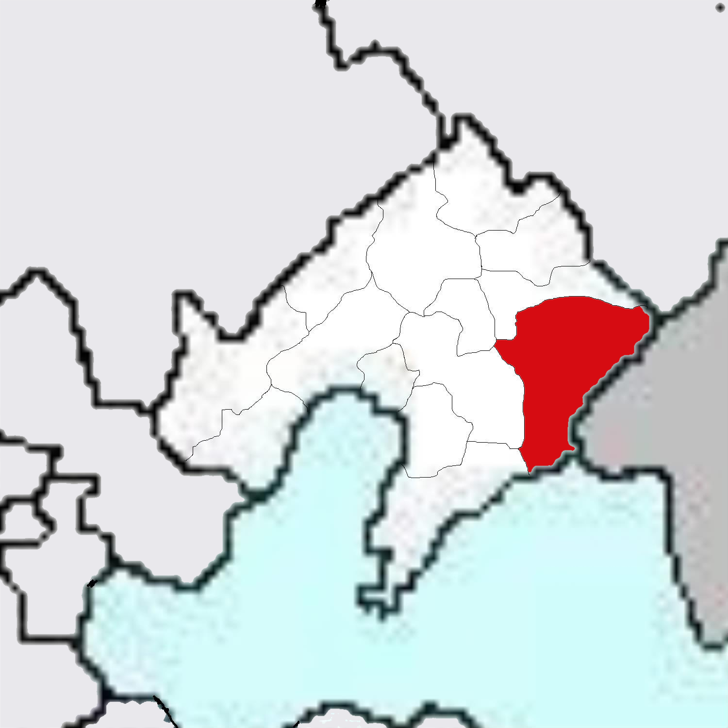 Map of Dandong Prefecture — Liaoning Province, northeastern China.